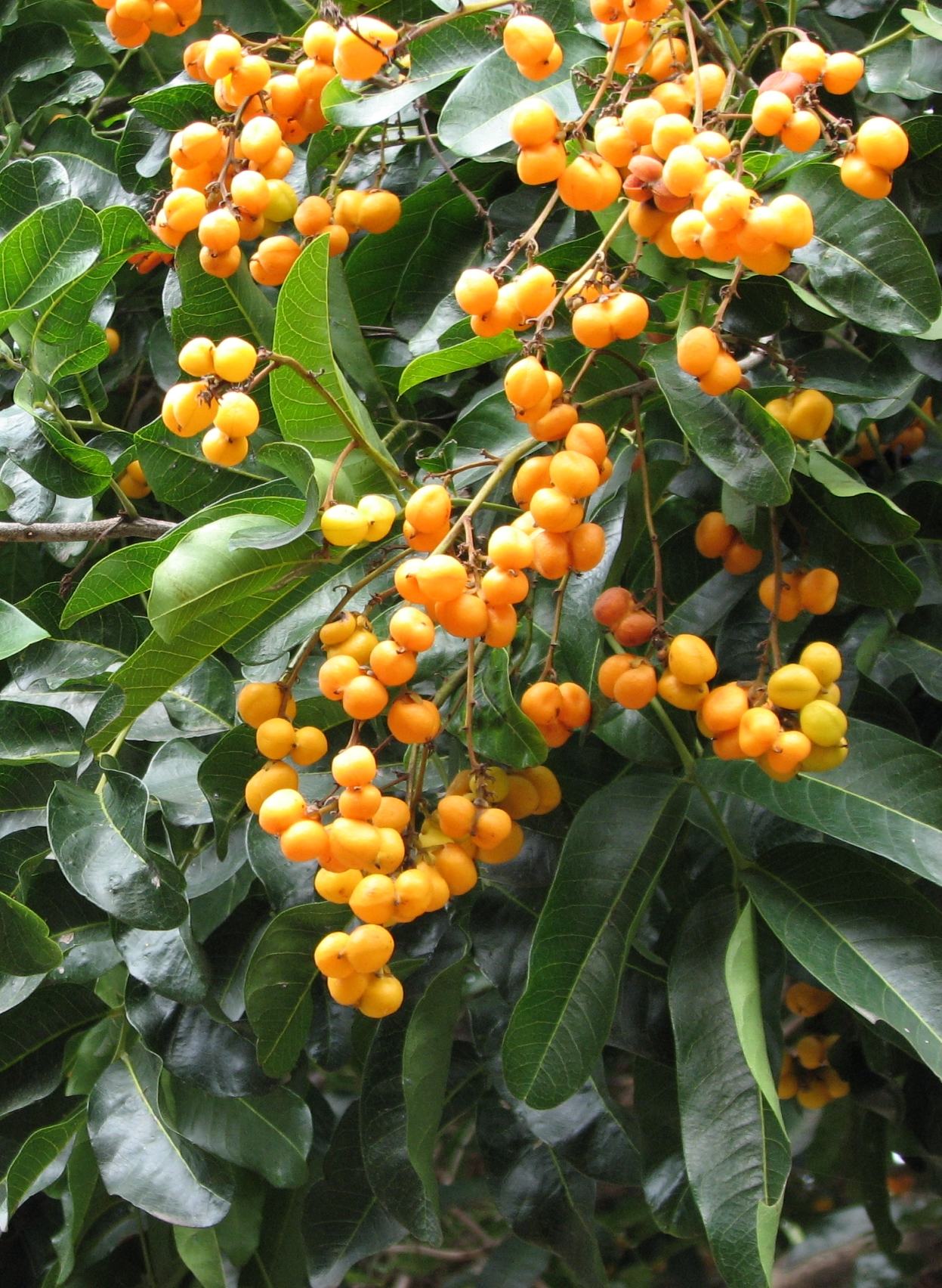 Harpullia hillii, cultivated, City Botanic Gardens, Brisbane, Australia